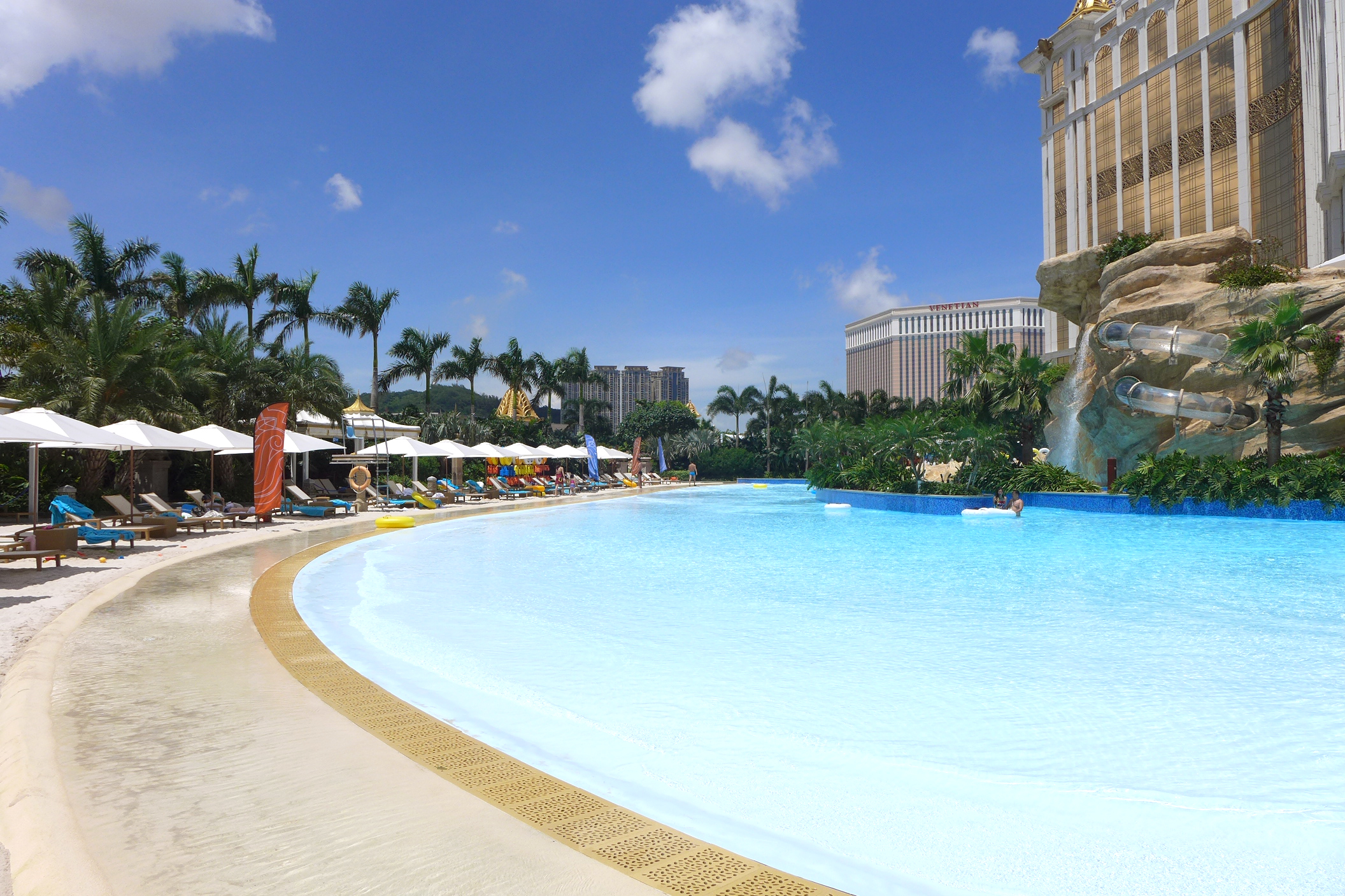 Galaxy Macau Grand Resort Palm Cove